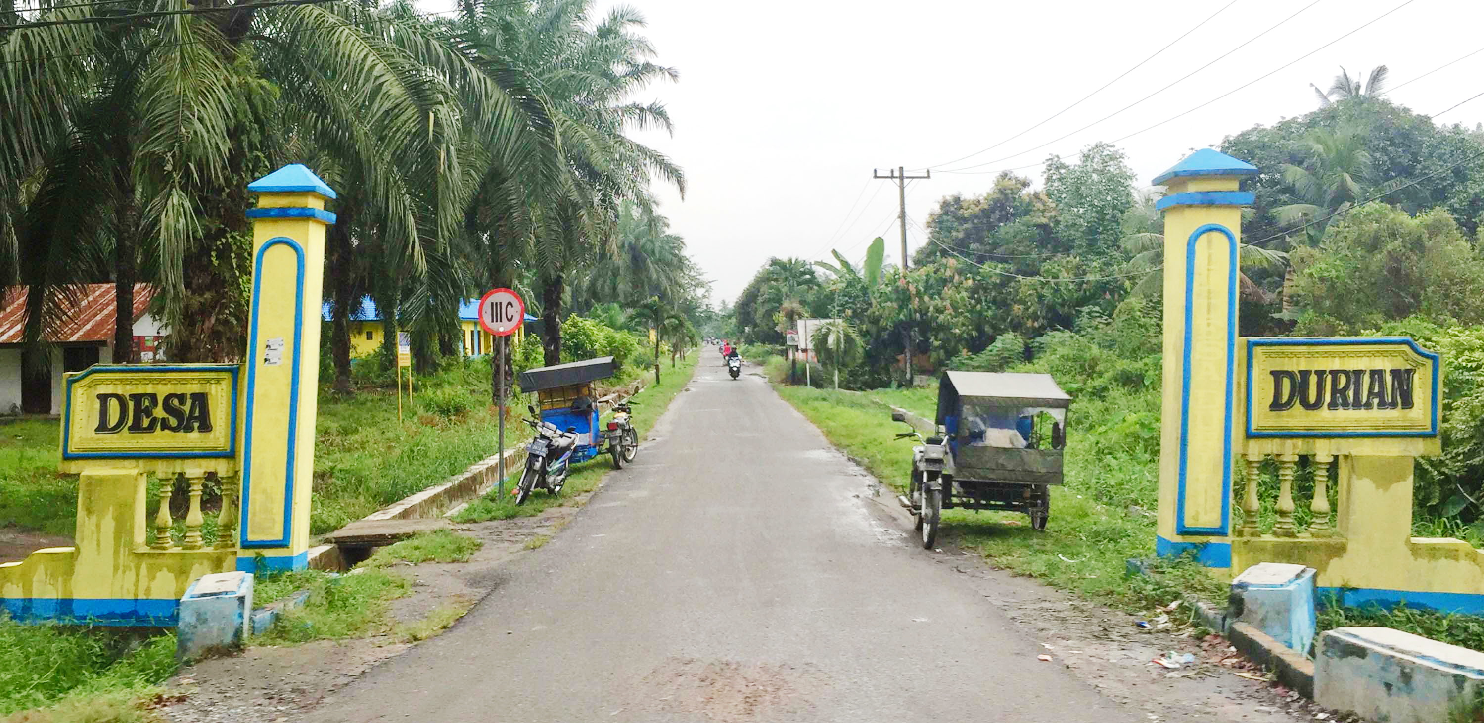 welcome gate to Durian, Sei Balai, Batu Bara